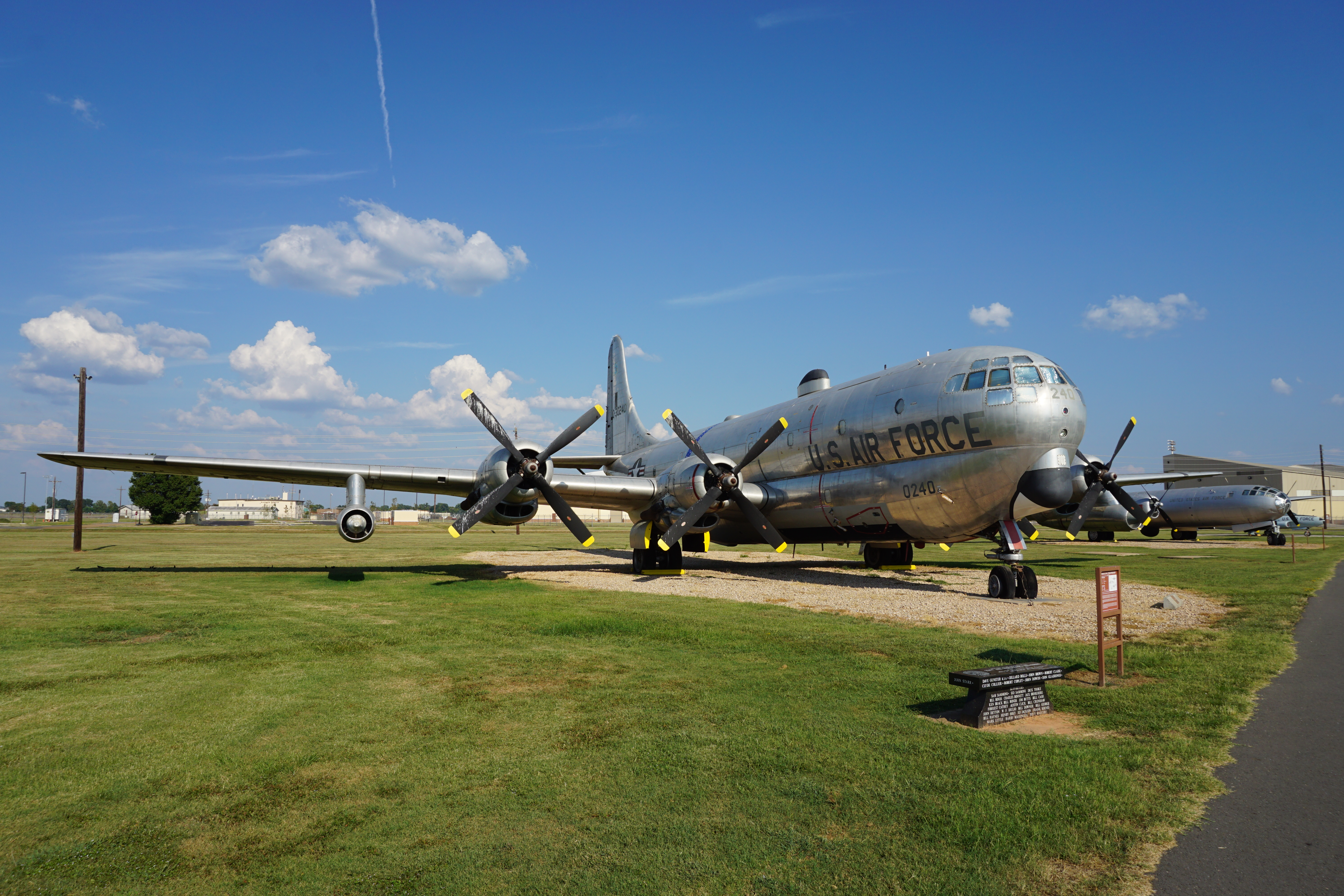 A Boeing KC-97G/L Stratofreighter on display at the Barksdale Global Power Museum at Barksdale Air Force Base near Bossier City, Louisiana (United States).